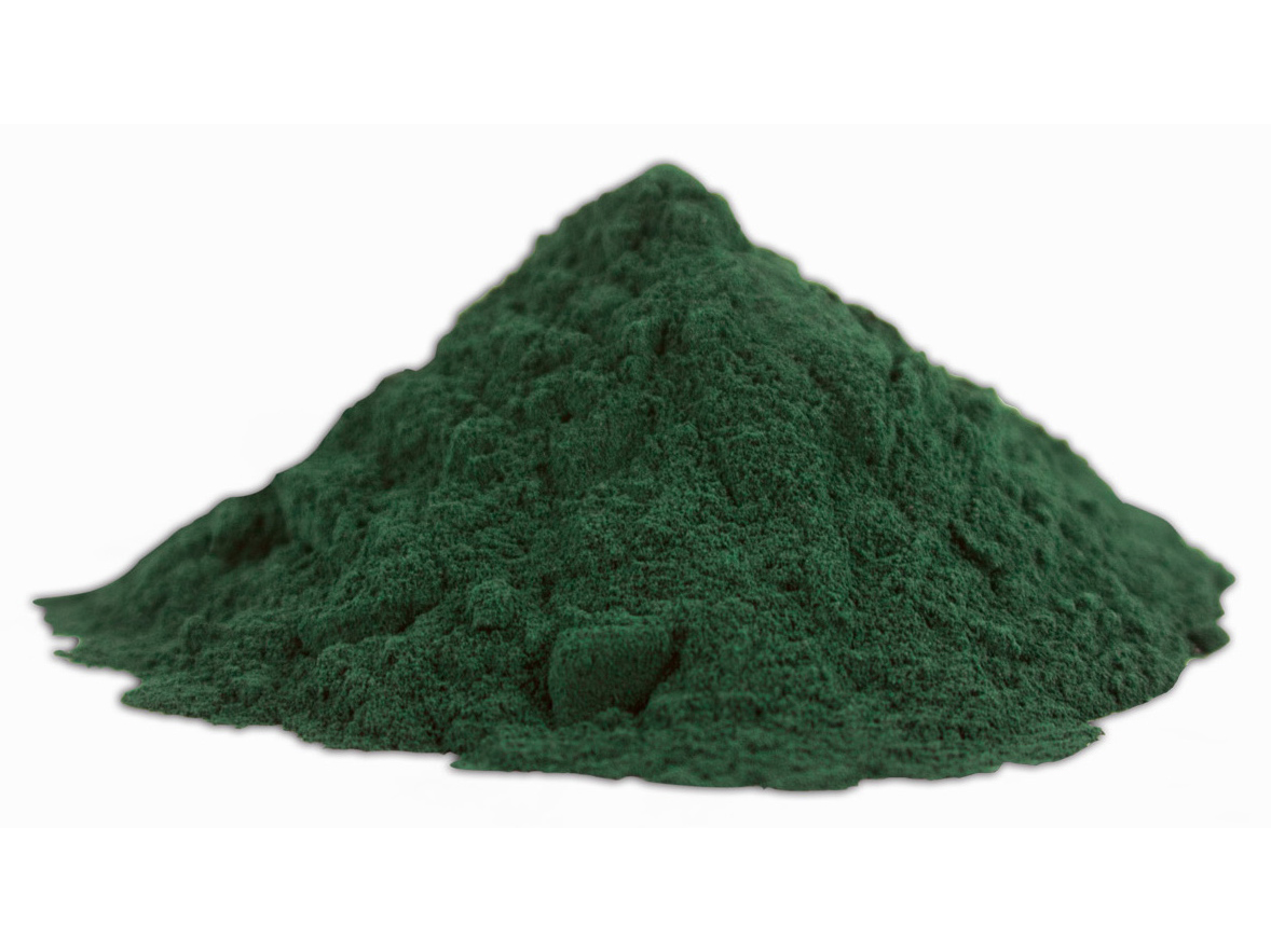 Spirulina (dietary supplement) powder made from cyanobacteria genus Arthrospira.